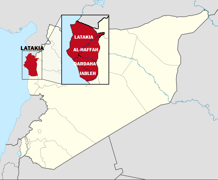 Latakia Governorate on Syria Map with its Subdistricts.